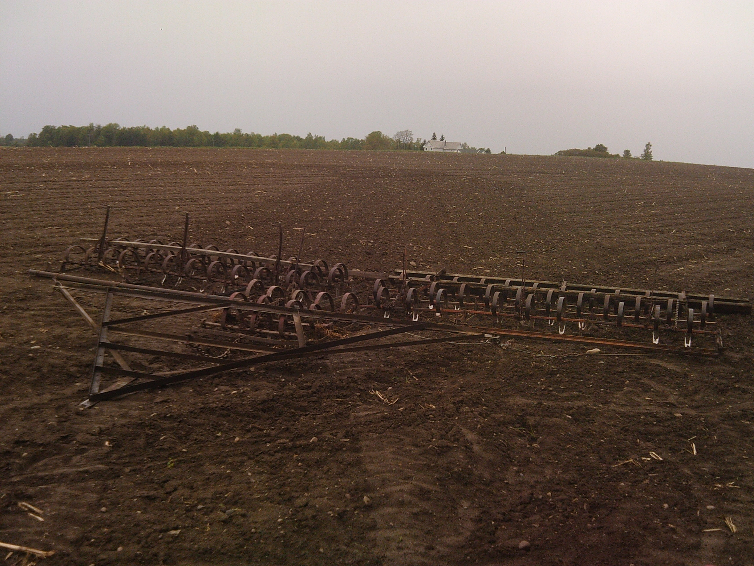 A 26 foot wide spring-tooth drag harrow, self-made by connection of two 12 foot (plus a little four foot garden drag) harrows through a triangle hitch